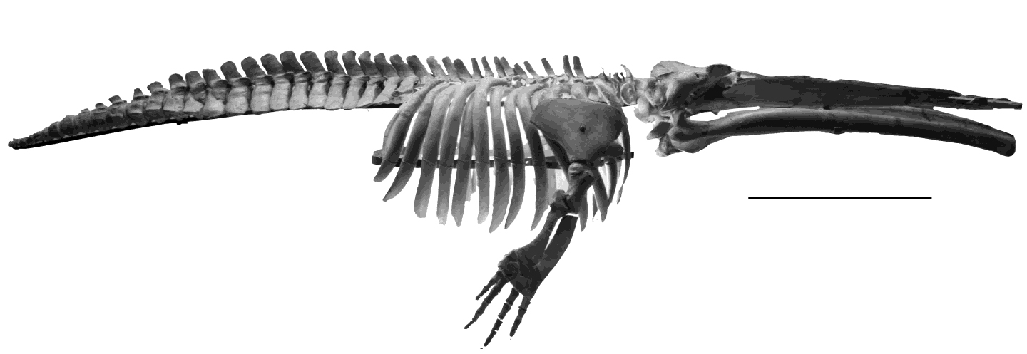 Mounted skeleton of the cetotheriid baleen whale Cetotherium riabinini in lateral view. Scale bar equals 1 m.